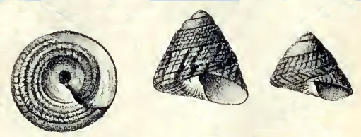 Tegula excavata (Lamarck, 1822); family Tegulidae